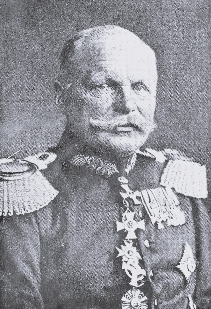 Ewald von Lochow